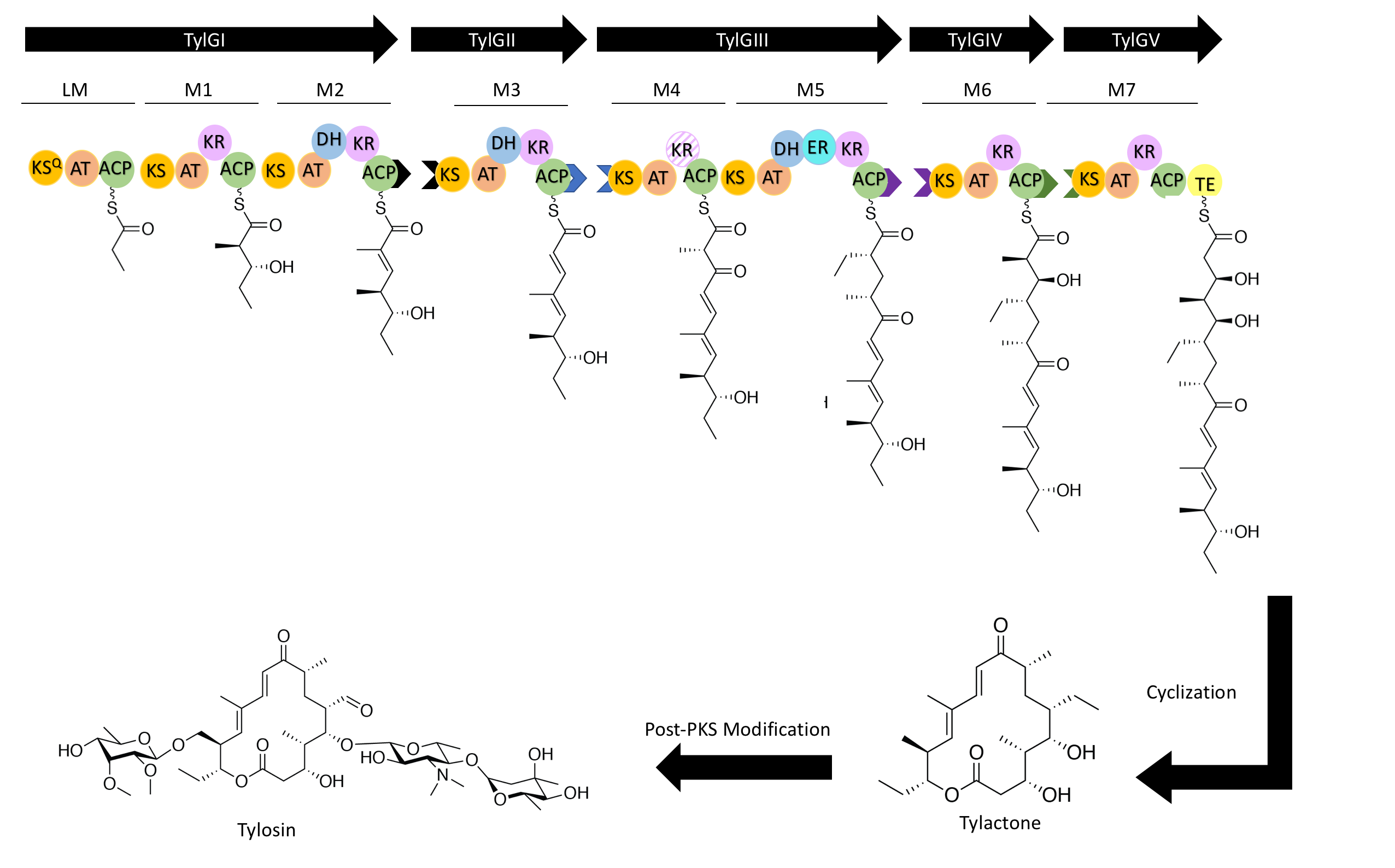 Each TYLS module is represented with domains and products indicated. Post-PKS processing to tylactone indicated.